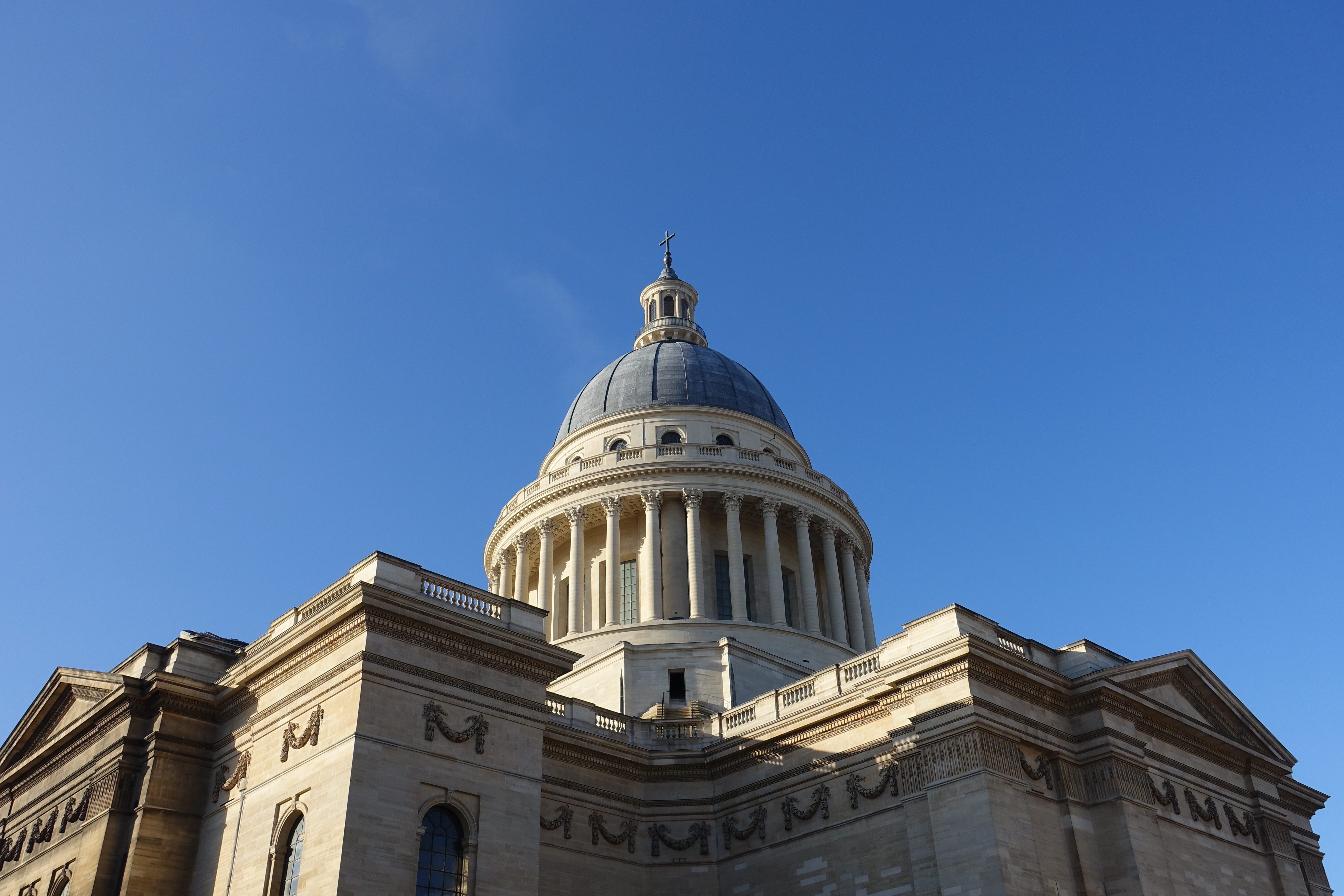 Dome of Panthéon de Paris.